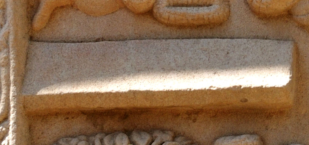 Chankrama, the path of the Buddha, or promenade, as shown in Buddhist aniconism.